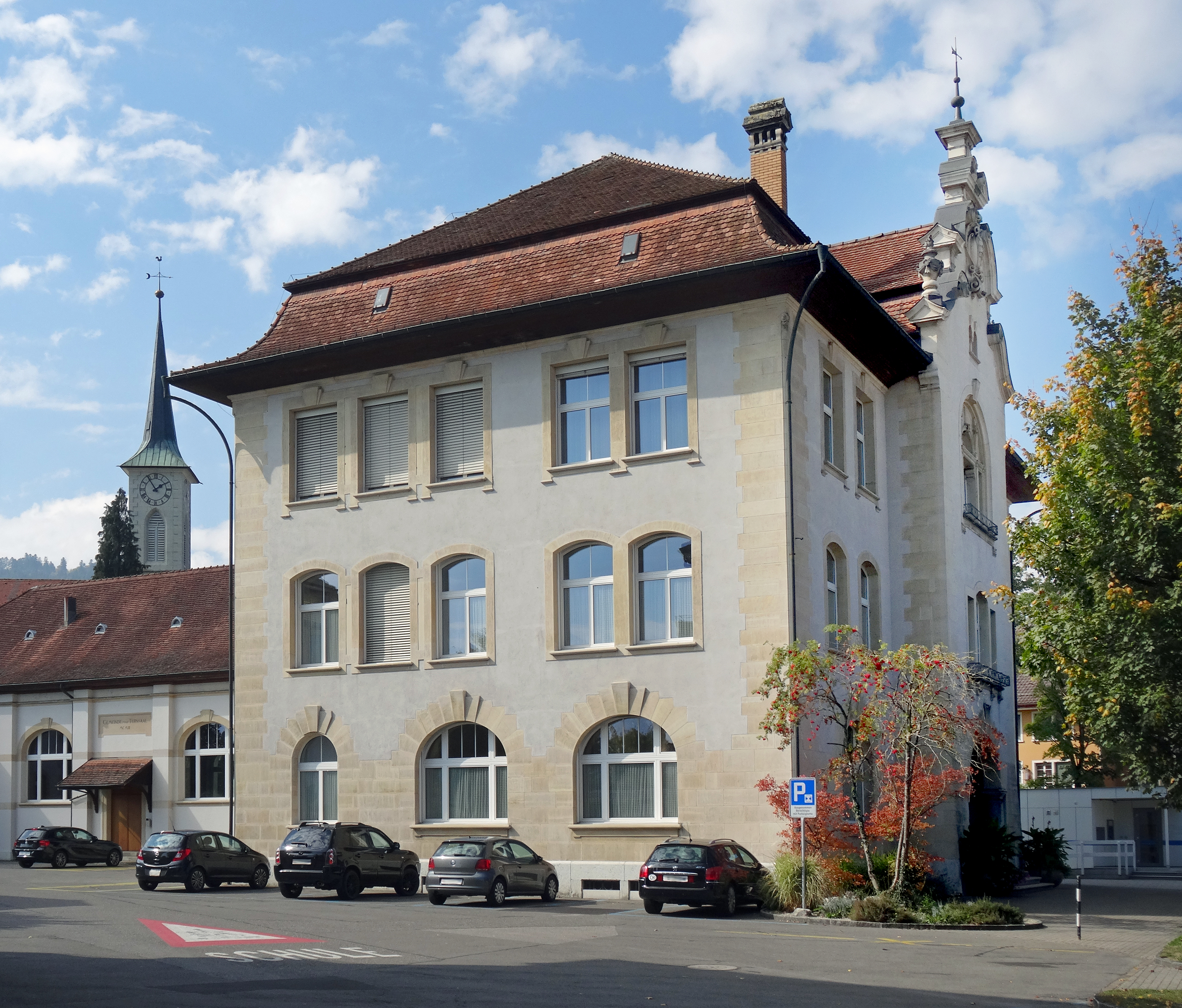 Gemeindehaus in Menziken, Switzerland.